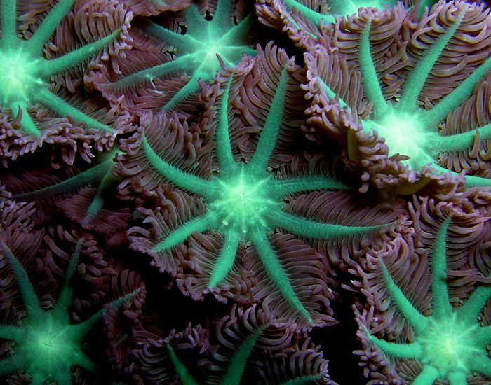 Soft coral. Likely of family Clavulariidae